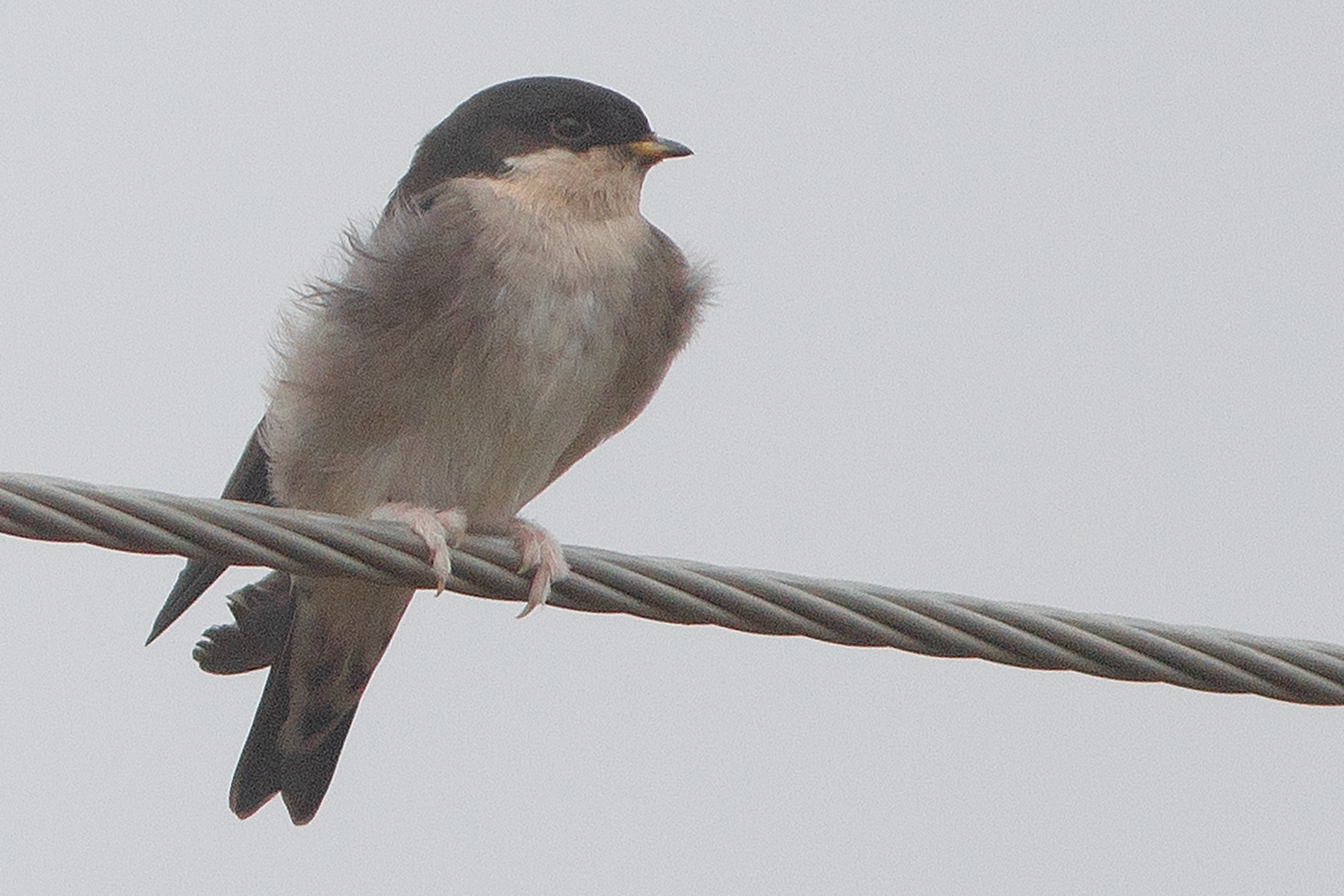 The species Asian House Martin had been photographed from East district in Sikkim, India on 24.09.2018. during the birding tour of GoingWild.